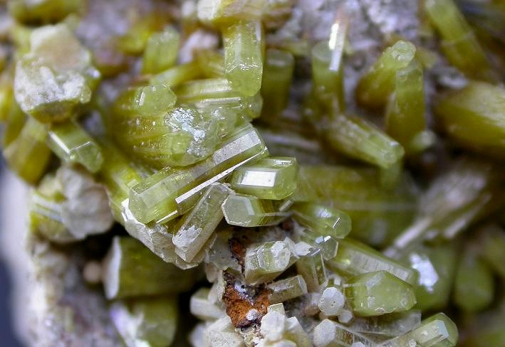 Pyromorphite Locality: Heilige Dreifaltigkeit Mine, Zschopau, Erzgebirge, Saxony, Germany (Locality at ) Field of view 12mm. Specimen and photo Leon Hupperichs.